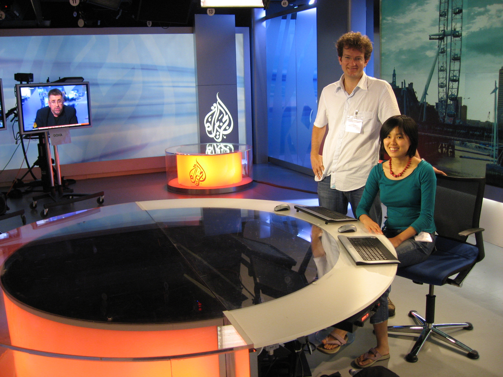 Visiting Al Jazeera studios in London.